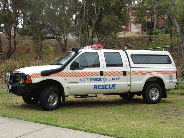 An emergency response Ford F250 from the South Australian State Emergency Service. This vehicle has been set up with Breathing Apparatus, Search and Rescue and USAR applications.